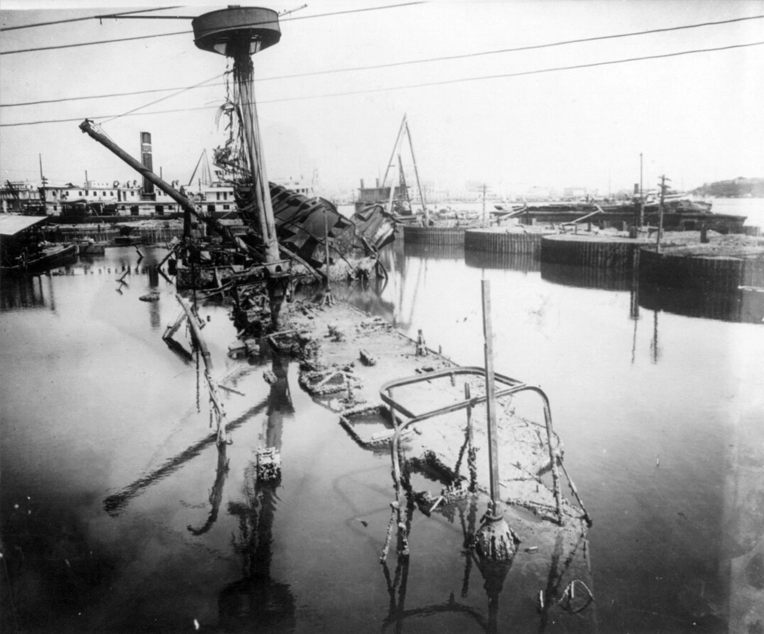 Wreckage of the USS Maine in Havana Harbor